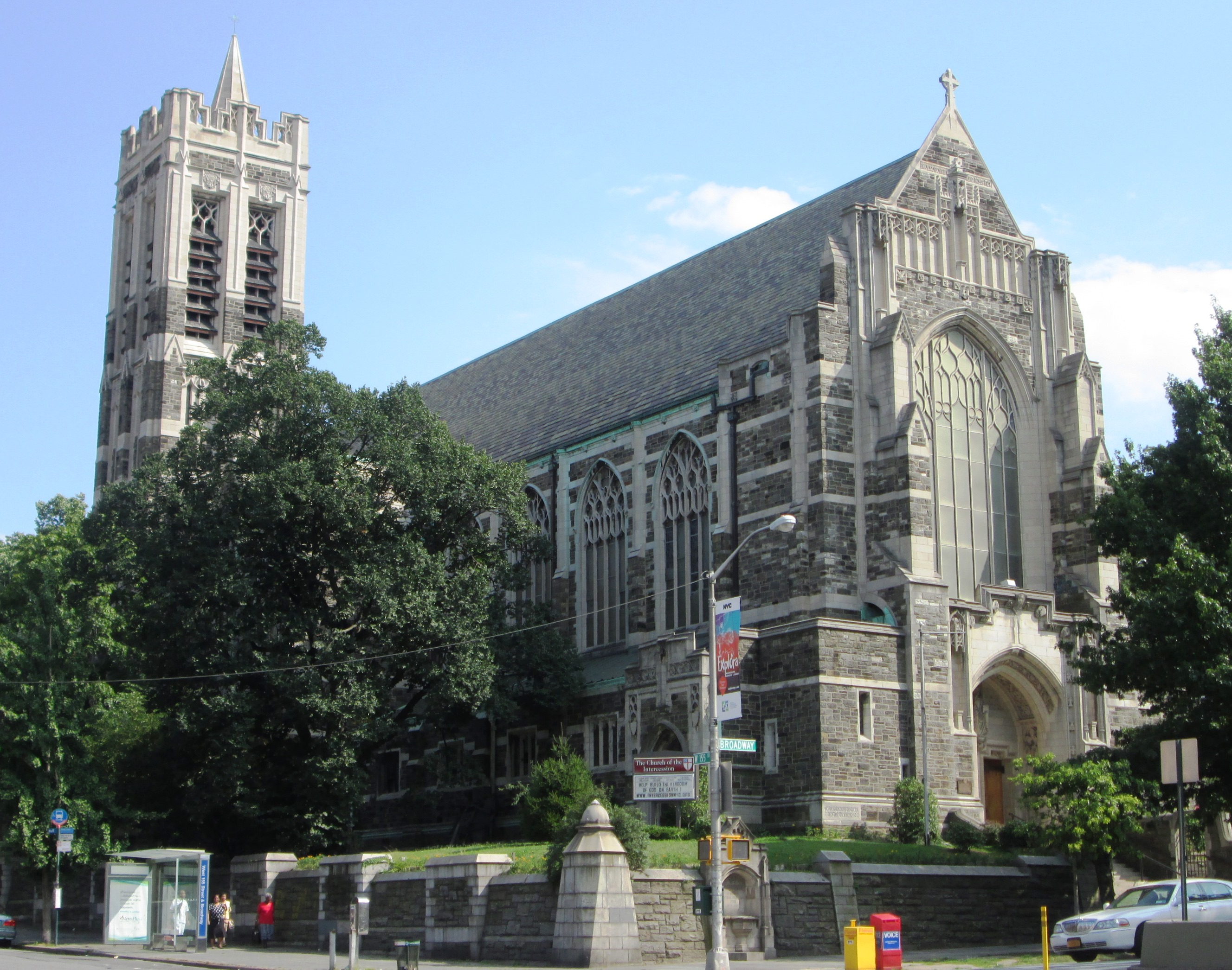 The Church of the Intercession is an Episcopal congregation located at 550 West 155th Street at Broadway on the border of the Harlem and Washington Heights neighborhoods of Manhattan, New York City, on the grounds of Trinity Church Cemetery. The congregation was founded in 1846, and the current sanctuary was built in 1912-15 and was designed by Bertram Grosvenor Goodhue in the Gothic Revival style. From 1906-1976, it was a chapel of Trinity Church.